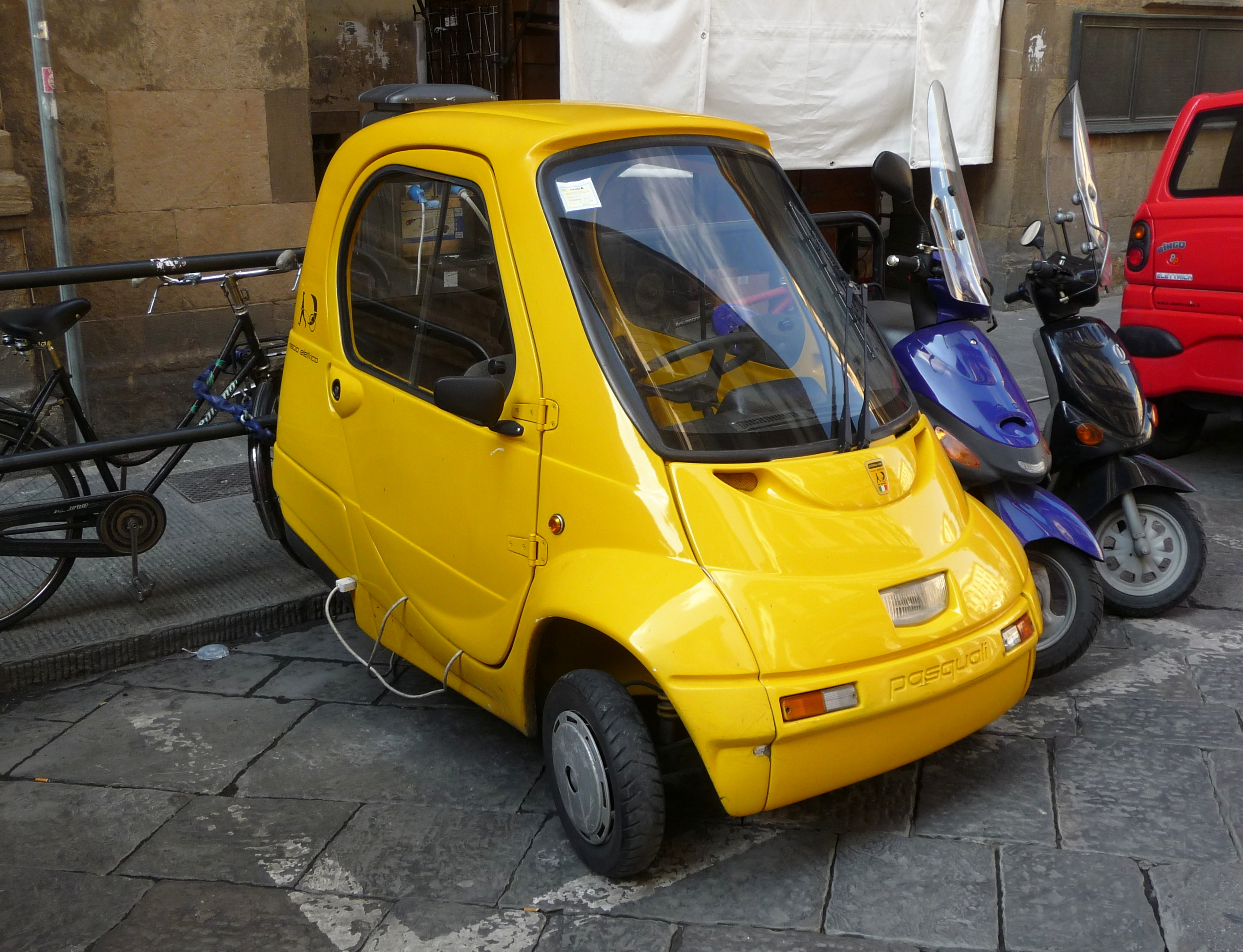 Electric microcar "Pasquali risciò", Florence, Italy